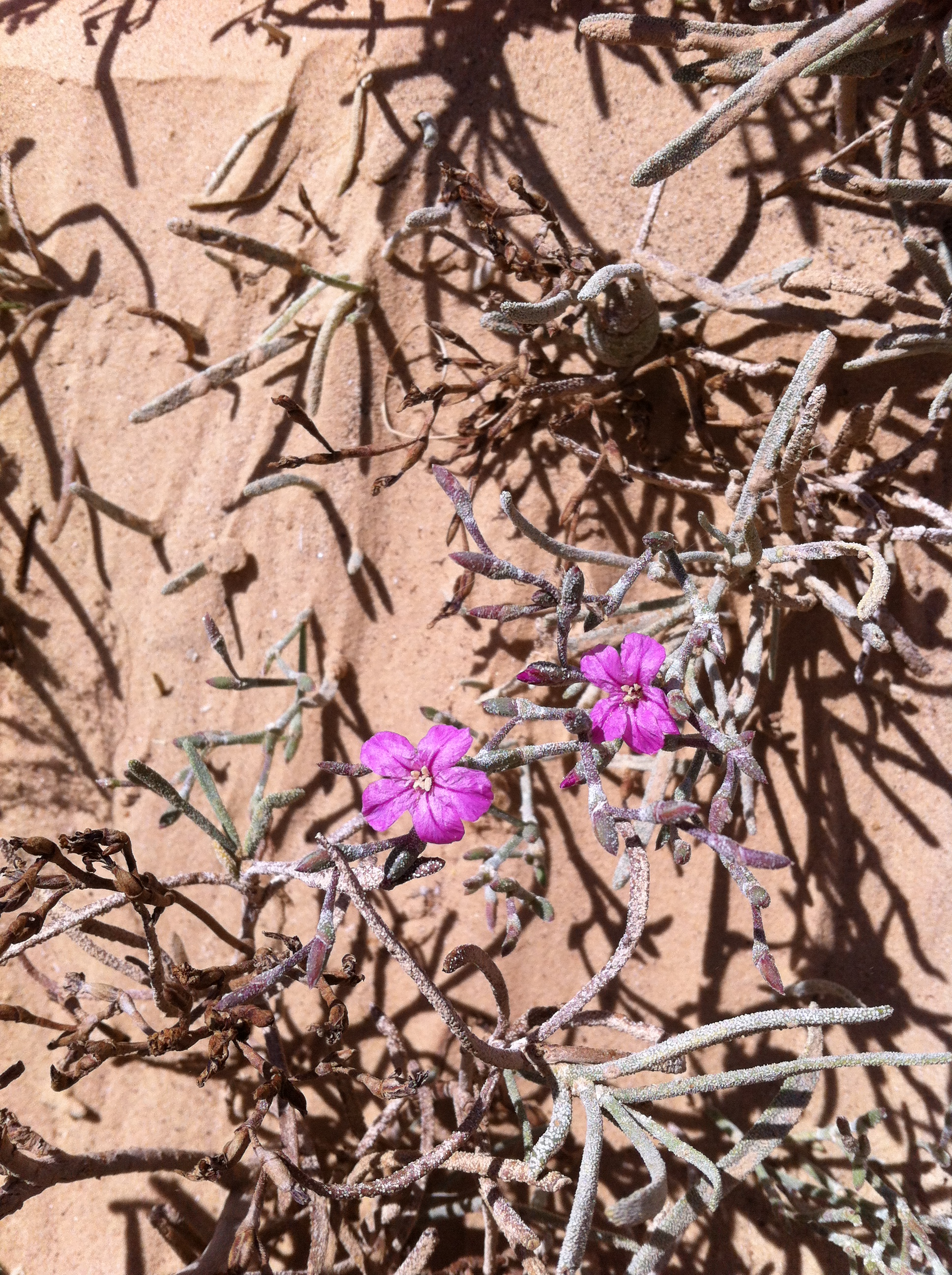 Limoniastrum guyonianum, near Tozeur, Tunisia